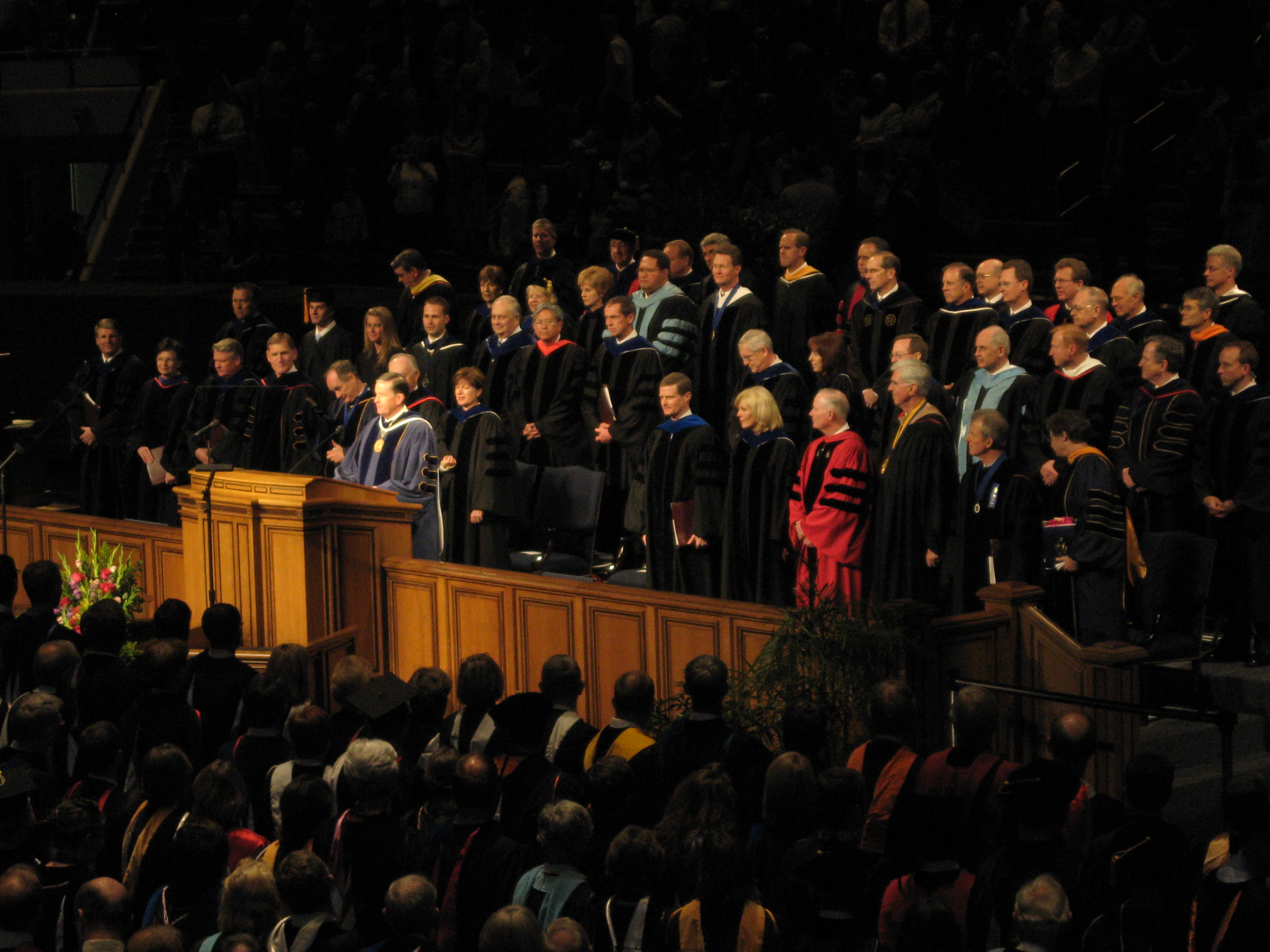 April 2008 BYU Commencement, with Cecil O. Samuelson at the podium; also depicted on the stand is David A. Bednar and Elaine S. Dalton